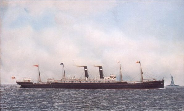 American Red Star Ocean Liner "Finland" in New York Harbor off the Statue of Liberty 1906, the vessel is starting its transatlantic voyage to Antwerp (Belgium) - signed and dated "A. Jacobsen 1906". The flag on the main mast is the house flag of the shipping company (Red Star Line New York), while there is the Belgium flag on the fore mast, which indicates that this American Liner is heading for Antwerp.